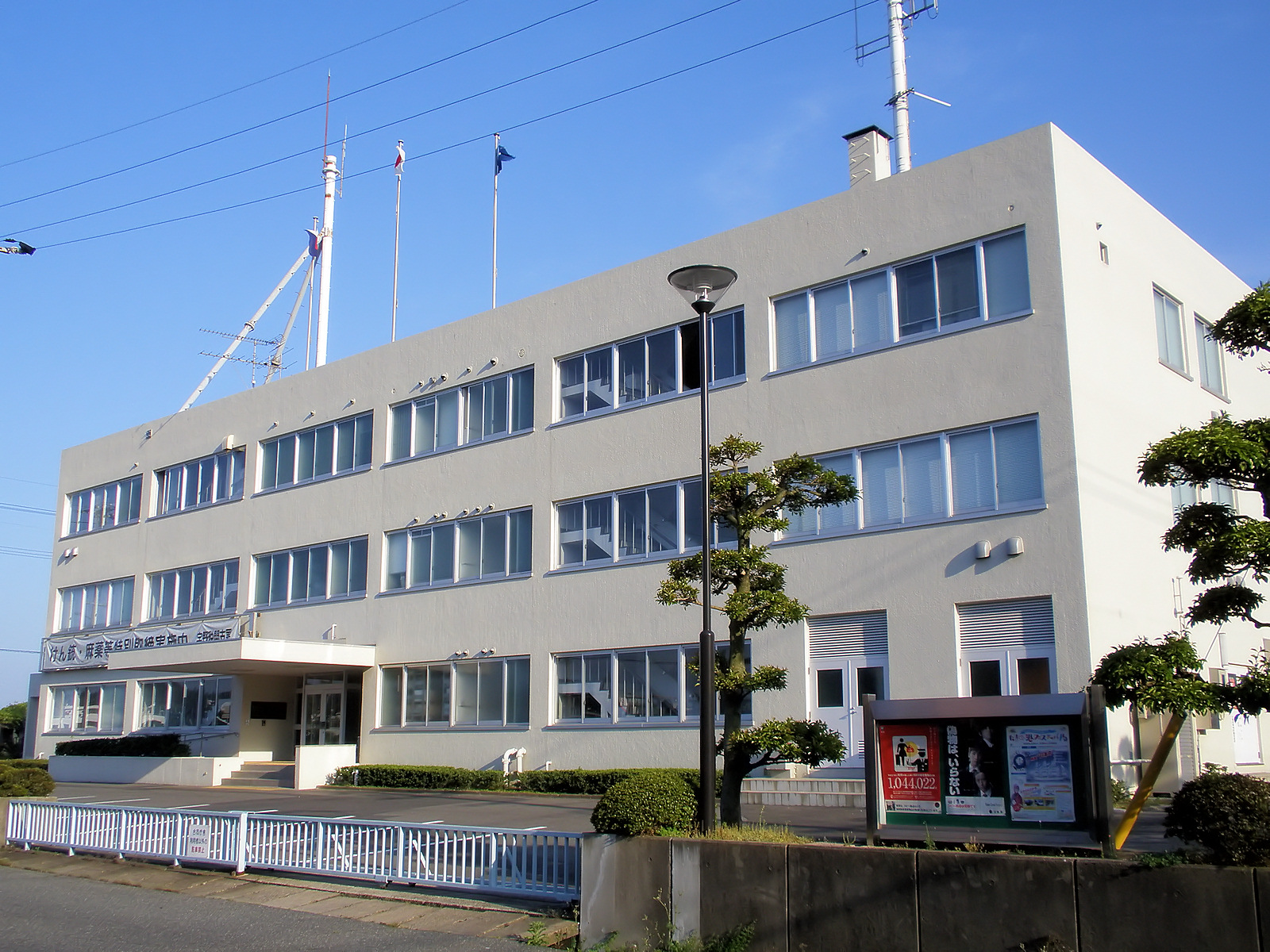 Tamano port joint government building 6th Regional Coast Guard Headquarters / Tamano coast guard office Chugoku district transport bureau / Okayama transport branch Tamano office Kobe customs / Uno branch customs